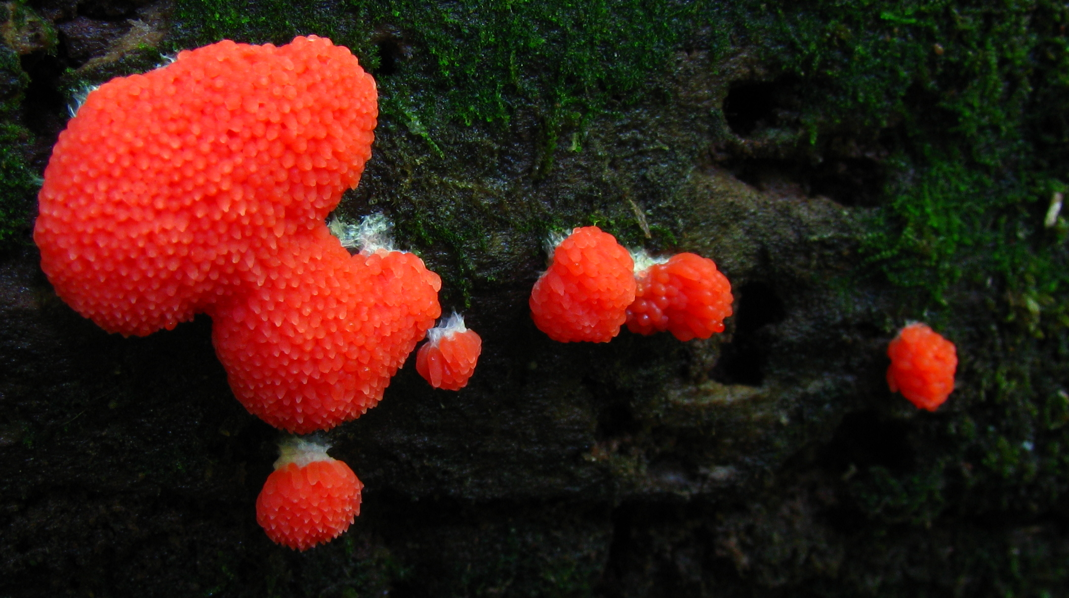 Tubifera ferruginosa ((Batsch) Gmelin) Location: Strouds Run State Park, Athens, Ohio, USA